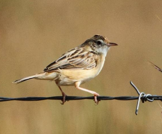 Cloud Cisticola (Cisticola textrix); near Ezihlabathini, KwaZulu-Natal